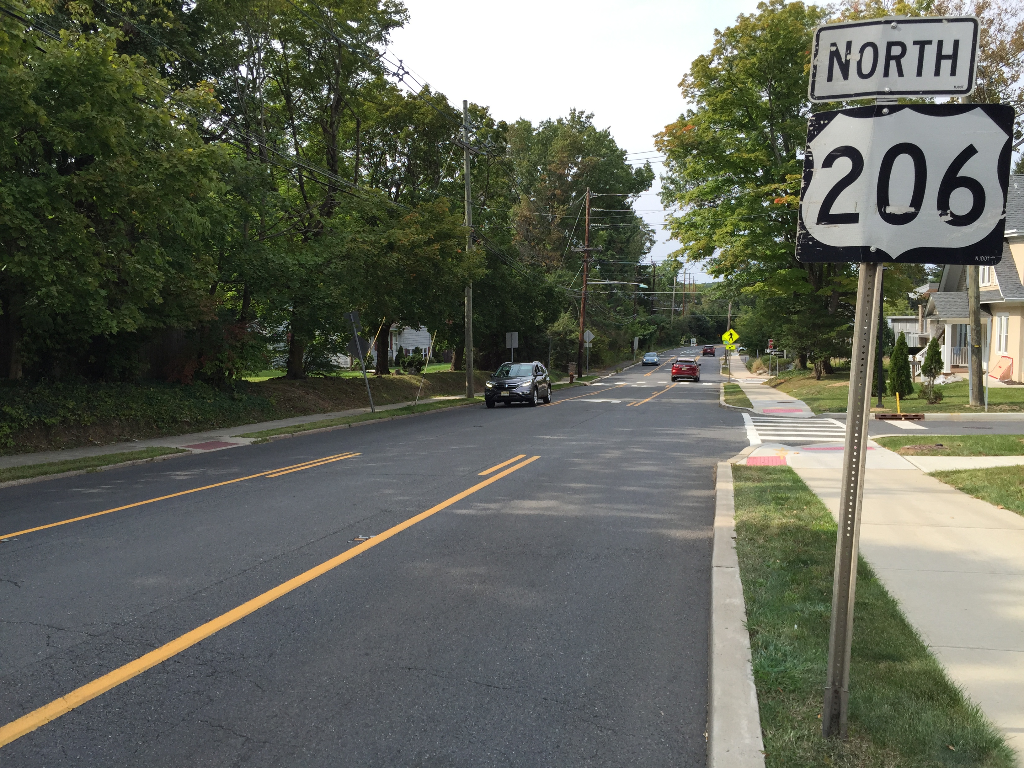 View north along U.S. Route 206 and Mercer County Route 533 (Bayard Lane) at Stanworth Drive in Princeton, Mercer County, New Jersey